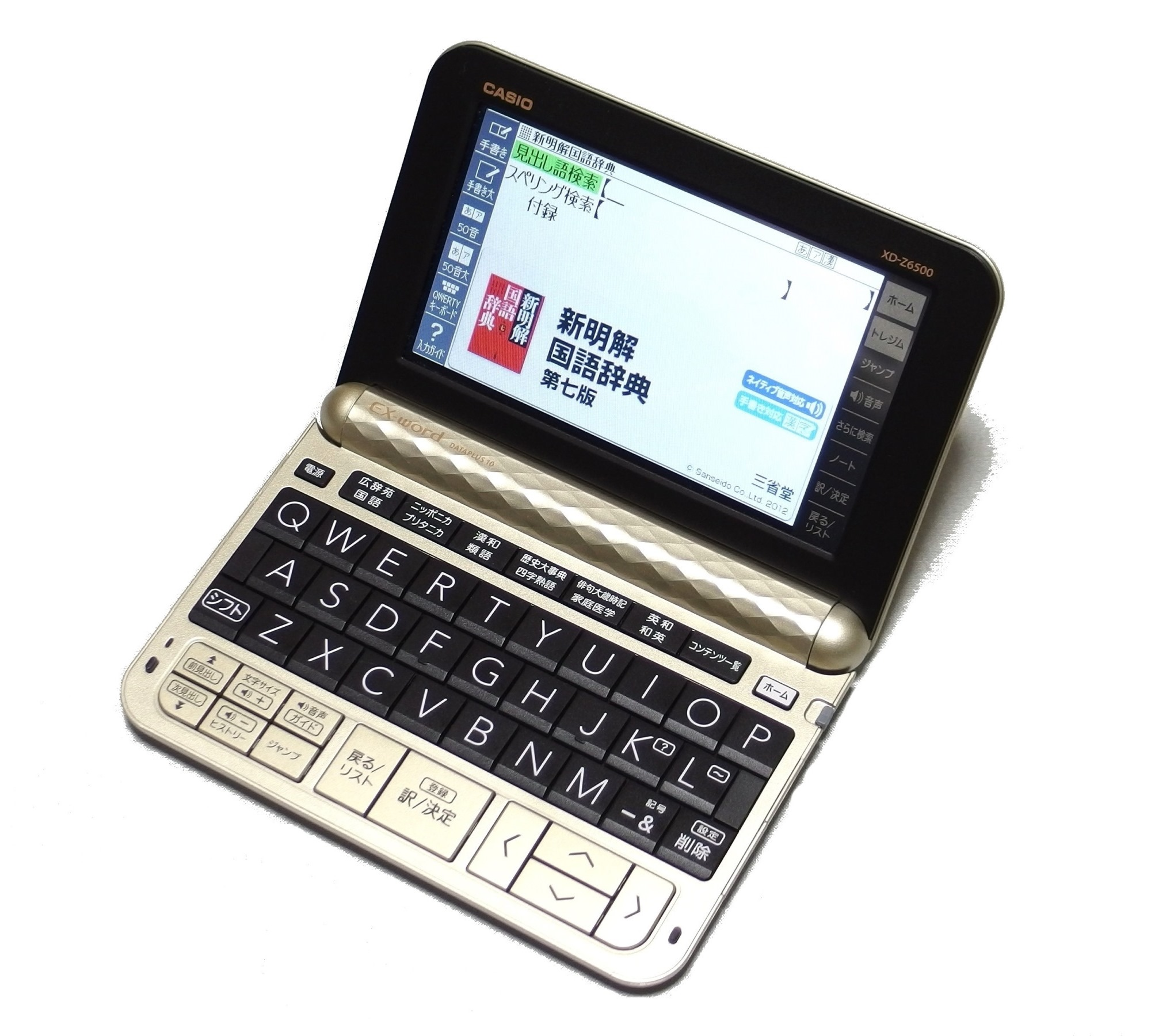 EX-word XD-Z6500, a Japanese IC dictionary, manufactured by Casio Computer in 2018.